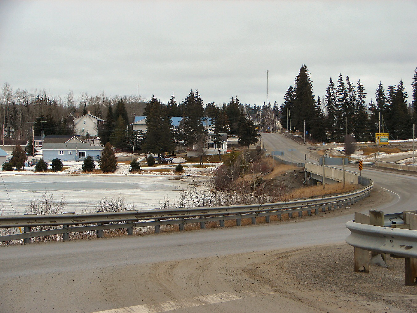 Highway 101 in Matheson, Ontario, Canada. The bridge in the photo was renamed the "Vernon L. Miller Memorial Bridge" in 2013.